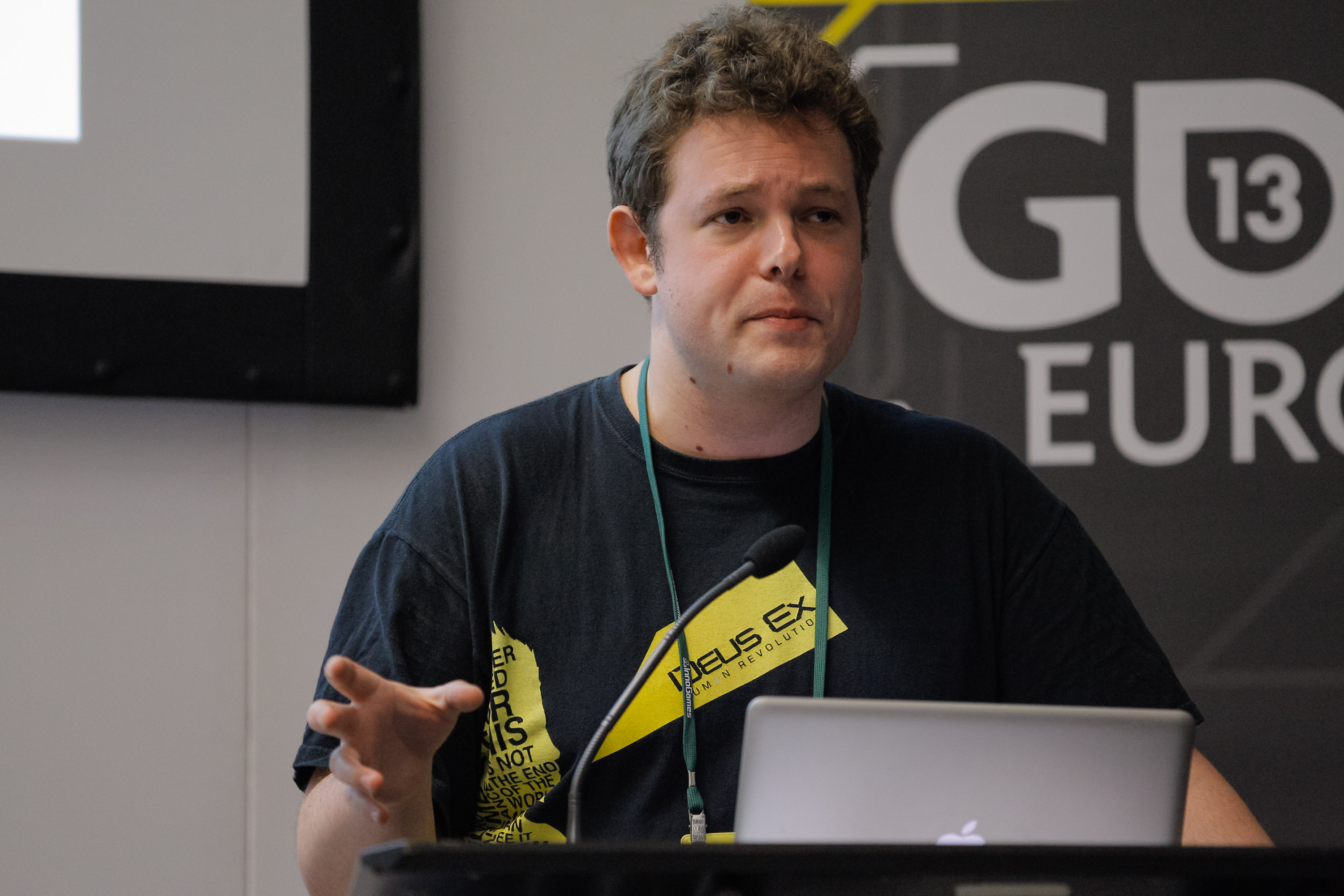 Mike Bithell at the Game Developers Conference Europe 2013